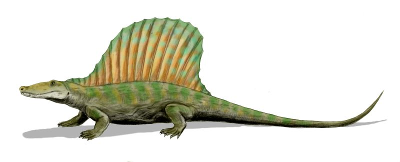 Secodontosaurus obtusidens, a pelycosaur from the Early Permian of North America, pencil drawing